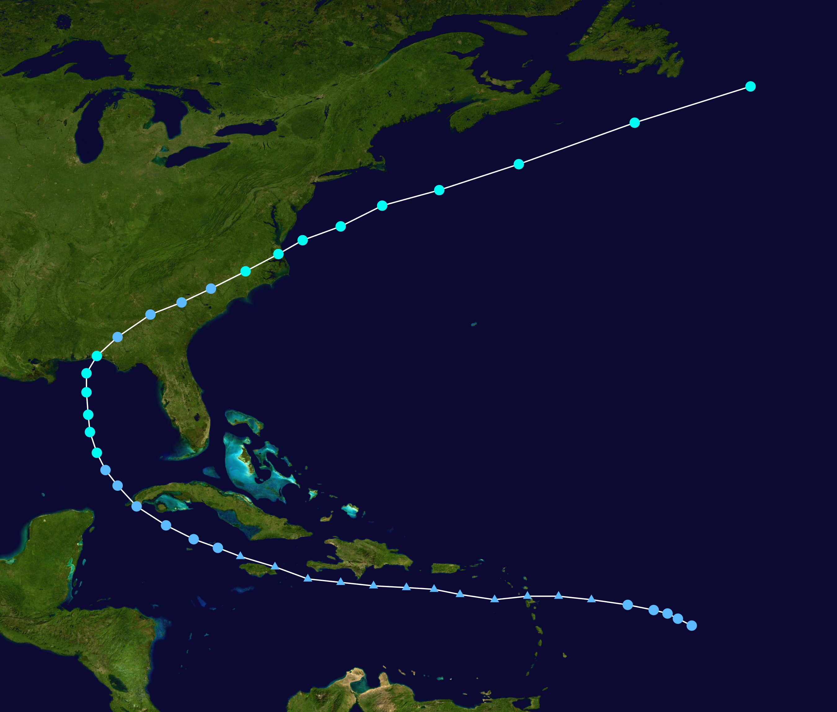 Track map of Tropical Storm Helene of the 2000 Atlantic hurricane season. The points show the location of the storm at 6-hour intervals. The colour represents the storm's maximum sustained wind speeds as classified in the Saffir–Simpson scale (see below), and the shape of the data points represent the nature of the storm, according to the legend below. Saffir–Simpson scale Tropical depression≤38 mph≤62 km/h Category 3111–129 mph178–208 km/h Tropical storm39–73 mph63–118 km/h Category 4130–156 mph209–251 km/h Category 174–95 mph119–153 km/h Category 5≥157 mph≥252 km/h Category 296–110 mph154–177 km/h Unknown Storm type Tropical cyclone Subtropical cyclone Extratropical cyclone / Remnant low / Tropical disturbance